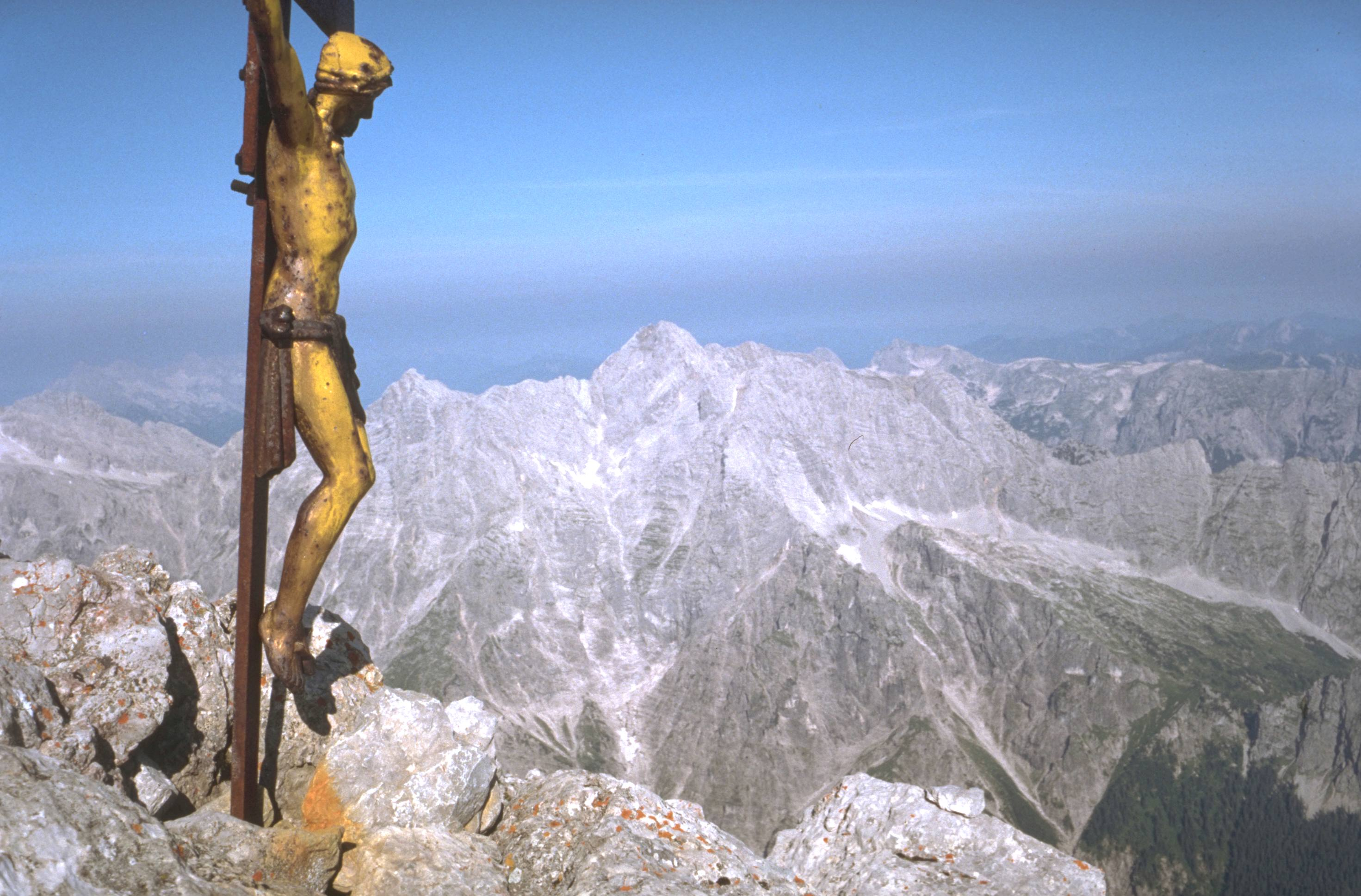 Watzmann Summit Hocheck